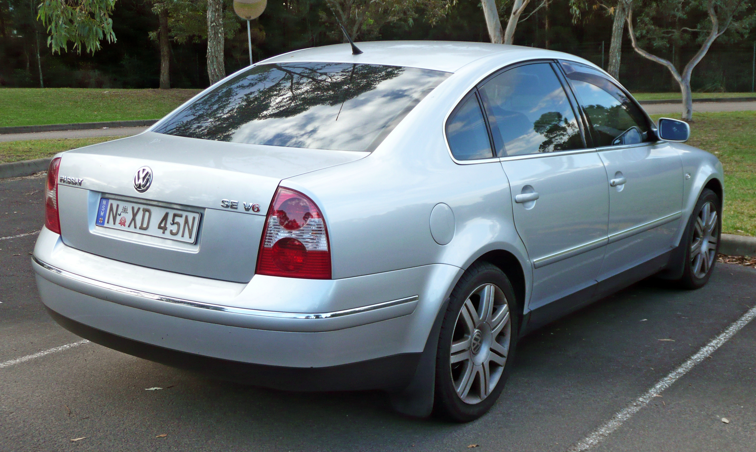 2003 Volkswagen Passat (3BG MY03) SE V6 sedan. Photographed in Loftus, New South Wales, Australia.